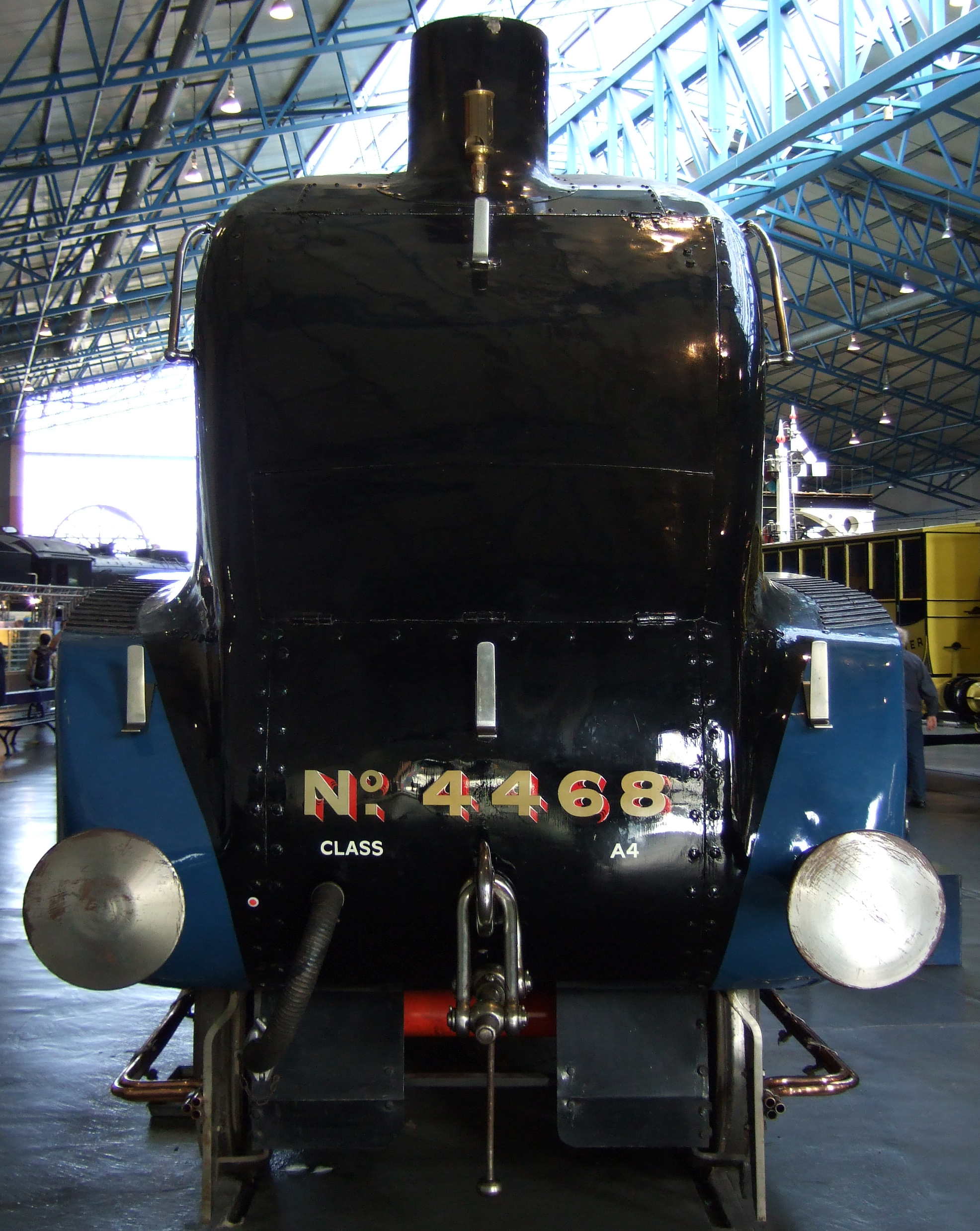 The front of the Mallard , the world record holder for speed for steam locomotives. Taken at the National Railway Museum in York.